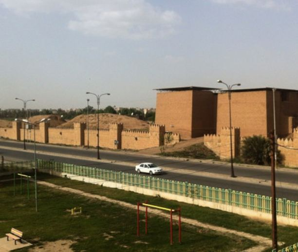 Nineveh. The Mashki Gate. Reconstructed. One of the fifteen gateways of ancient Nineveh. The lower portions of the stone retaining wall are original. The gateway structure itself was originally of mudbrick. A few orthostats can be seen at the right of the passageway. Height of the vault is about 5 m.